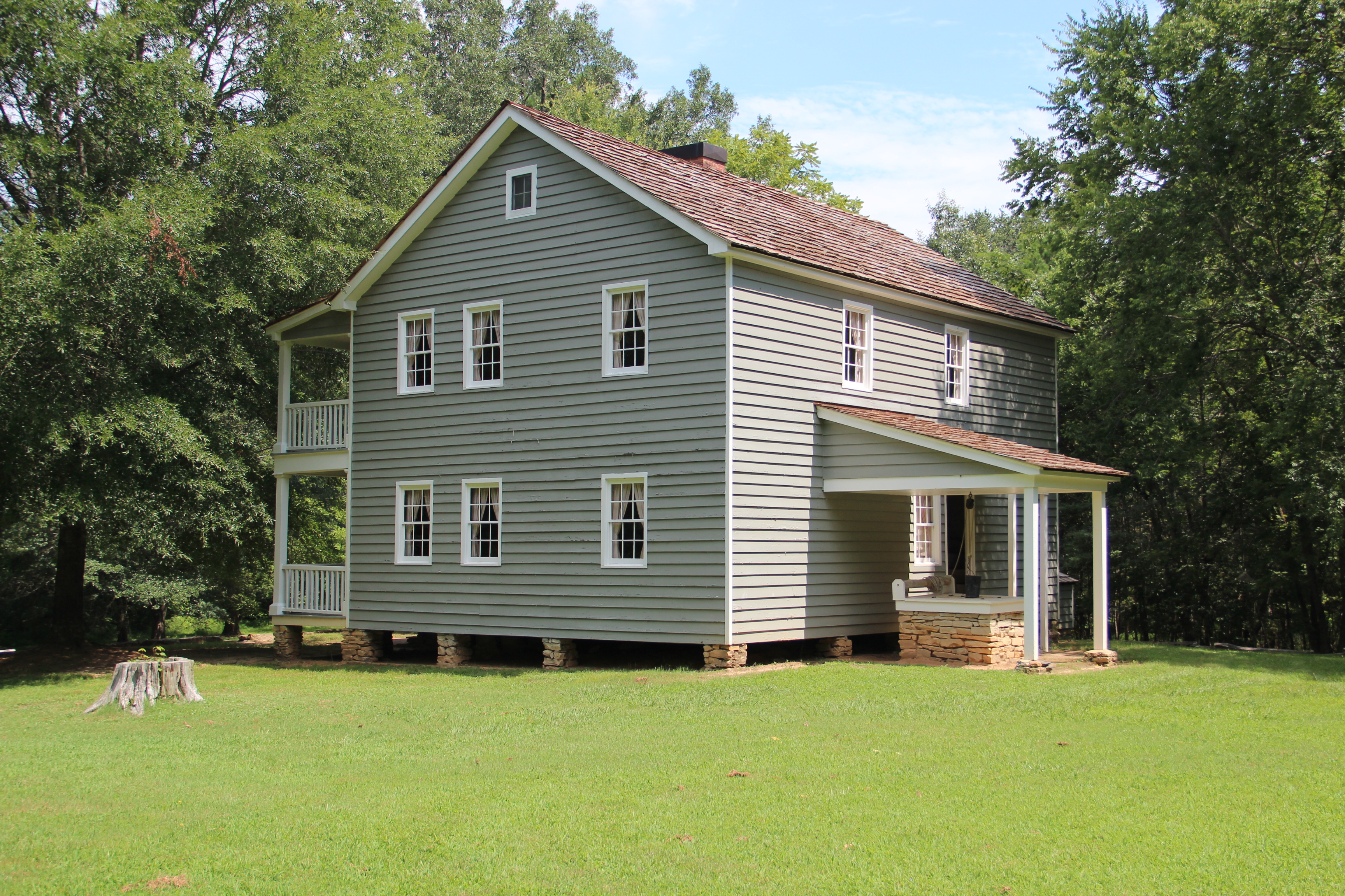 Back side of Worcester House, New Echota